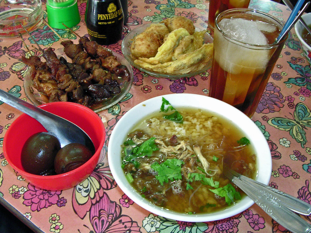 Indonesian Food. picture taken by self (User:Merbabu)